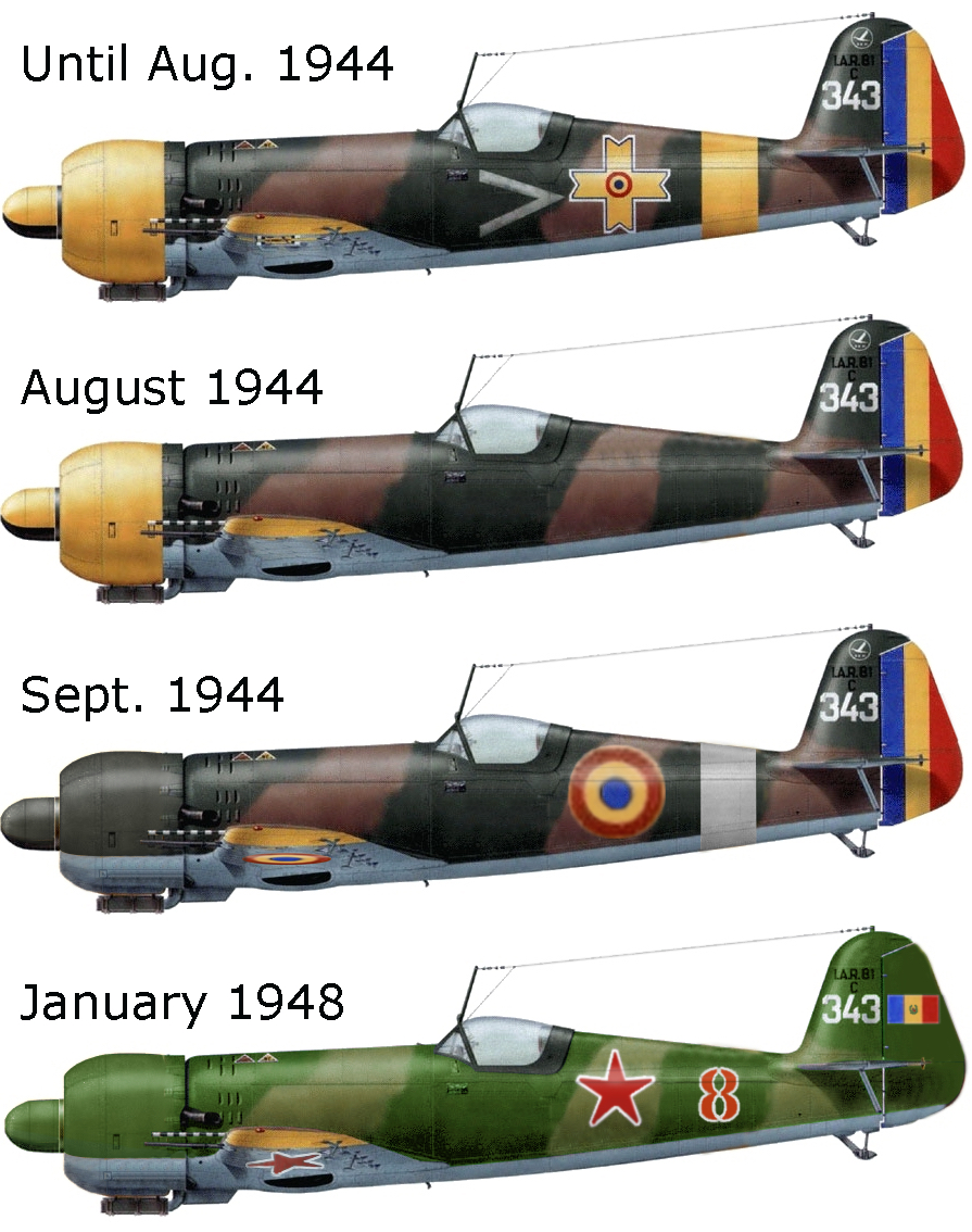 Flown by Eugen Ianculescu